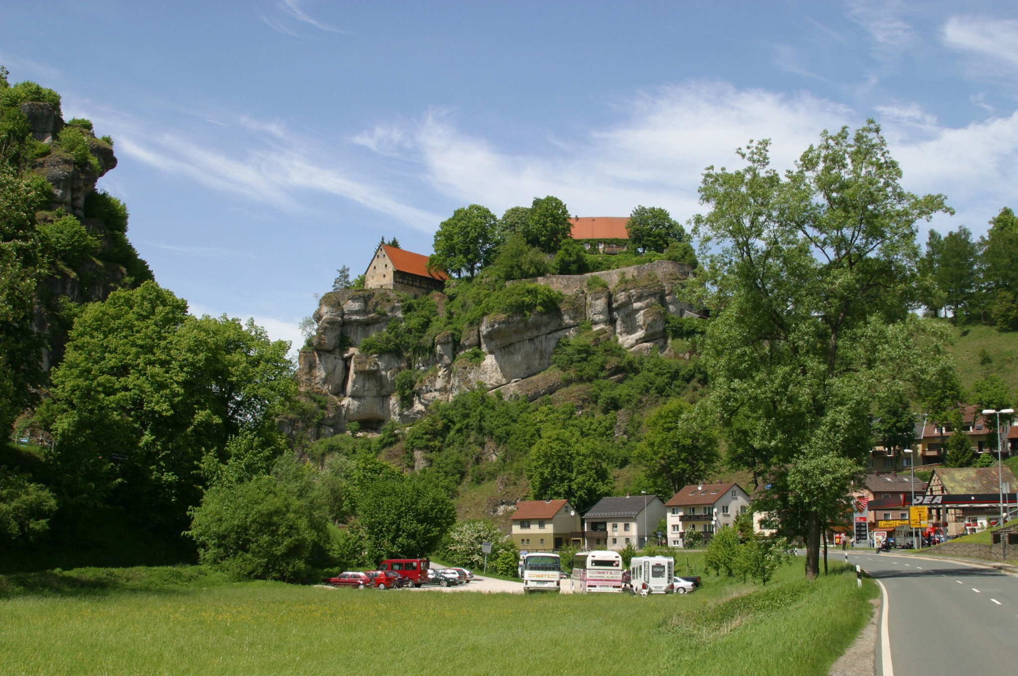 Picture from Pottenstein (Bayern)